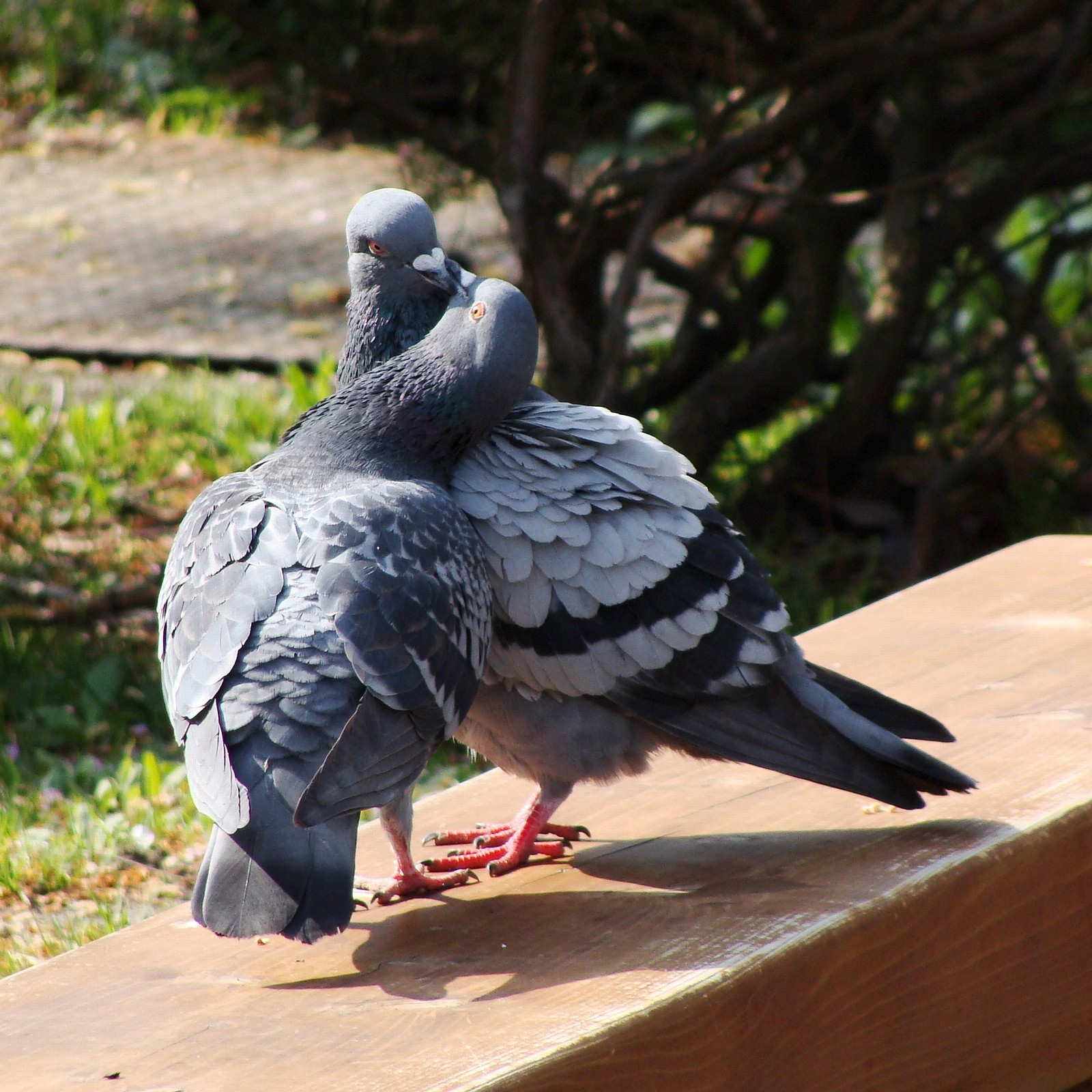 Rock Pigeon courting in Gappo Park, Aomori City, Japan